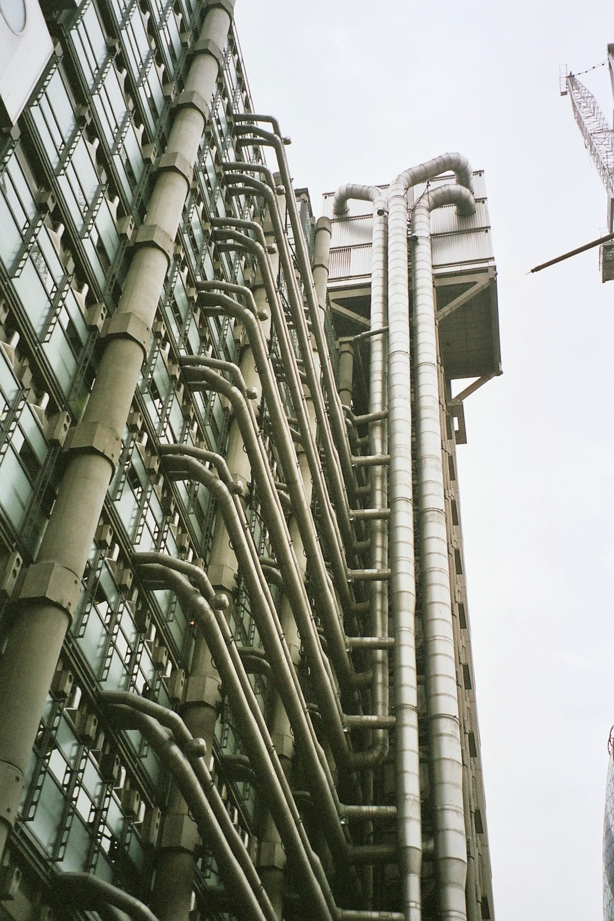 City of London